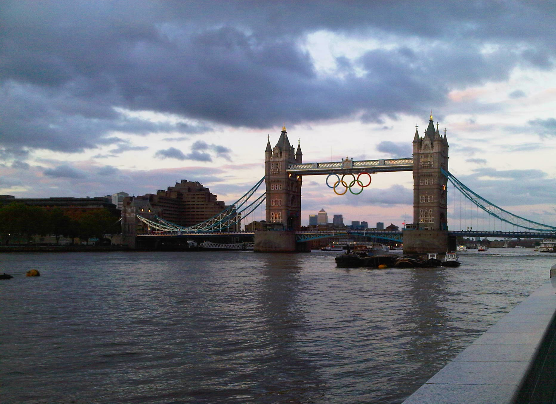 The Tower Bridge with the Olympic Rings